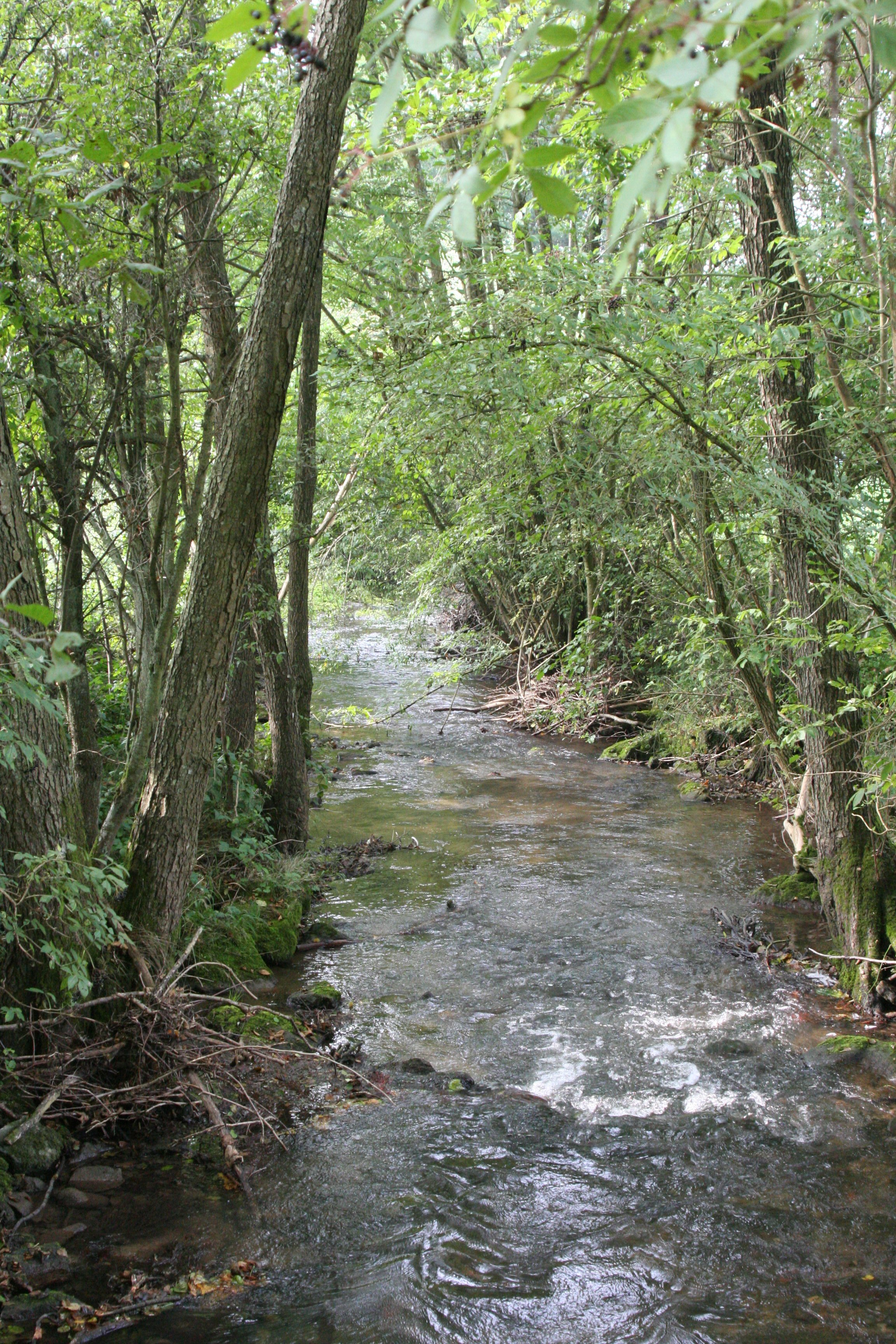 The German creek/river Brettach in Bretzfeld-Brettach